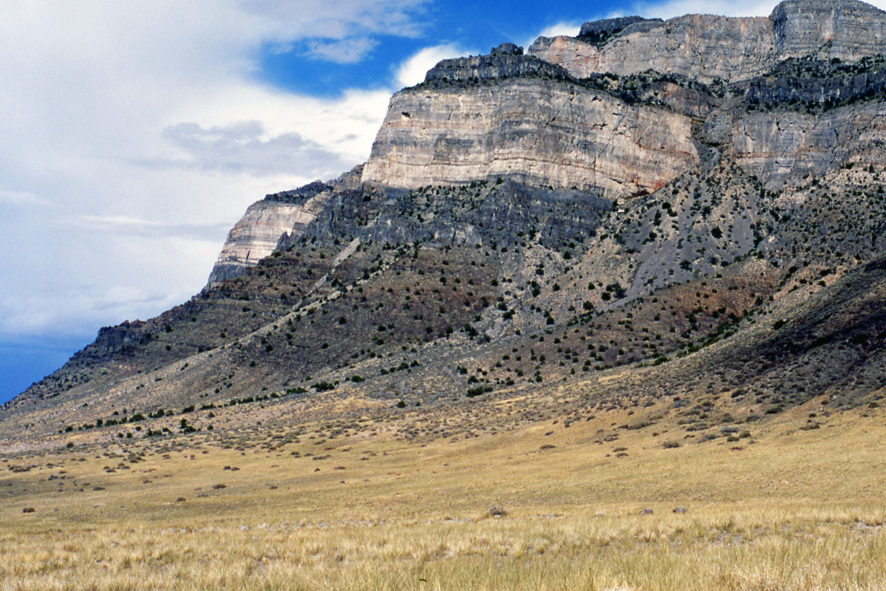 This is the western side of western Utah's House Range (looking ~north Route 50, west of Marjum Pass). All the exposed units are Cambrian in age From the base-upward, the lower, curved slopes consist of Pioche Formation and Tintic Quartzite. Above that is a thick, lighter-colored cliff of Howell Limestone. The darker-colored slopes above that are the Chisholm Shale. The next light-colored cliff above is the Dome Limestone and Whirlwind Formation. The dark-colored are at the very top has outcrops of Swasey Limestone.